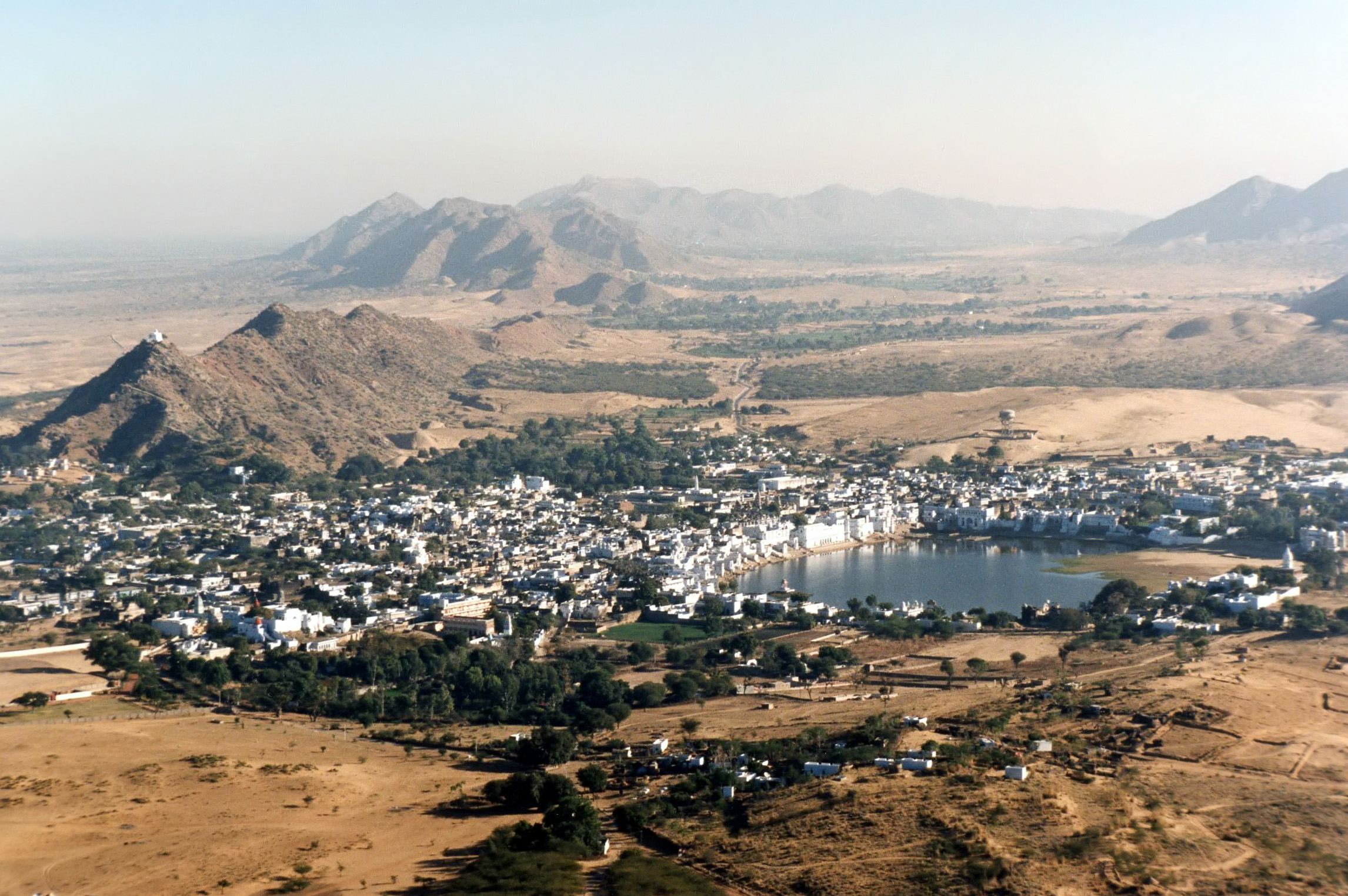 Puskhar, Rajasthan, India